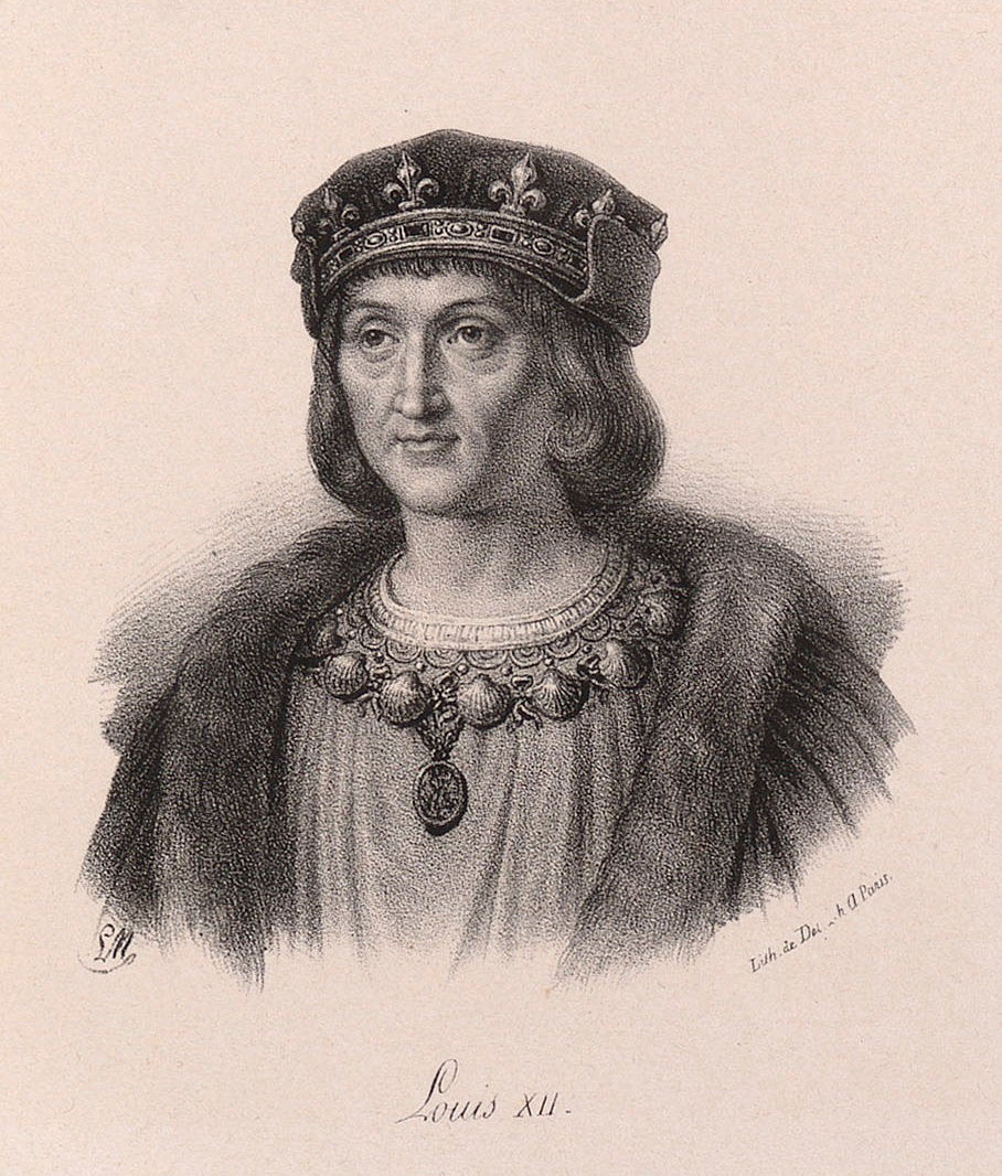 Louis XII of France (1462-1515)